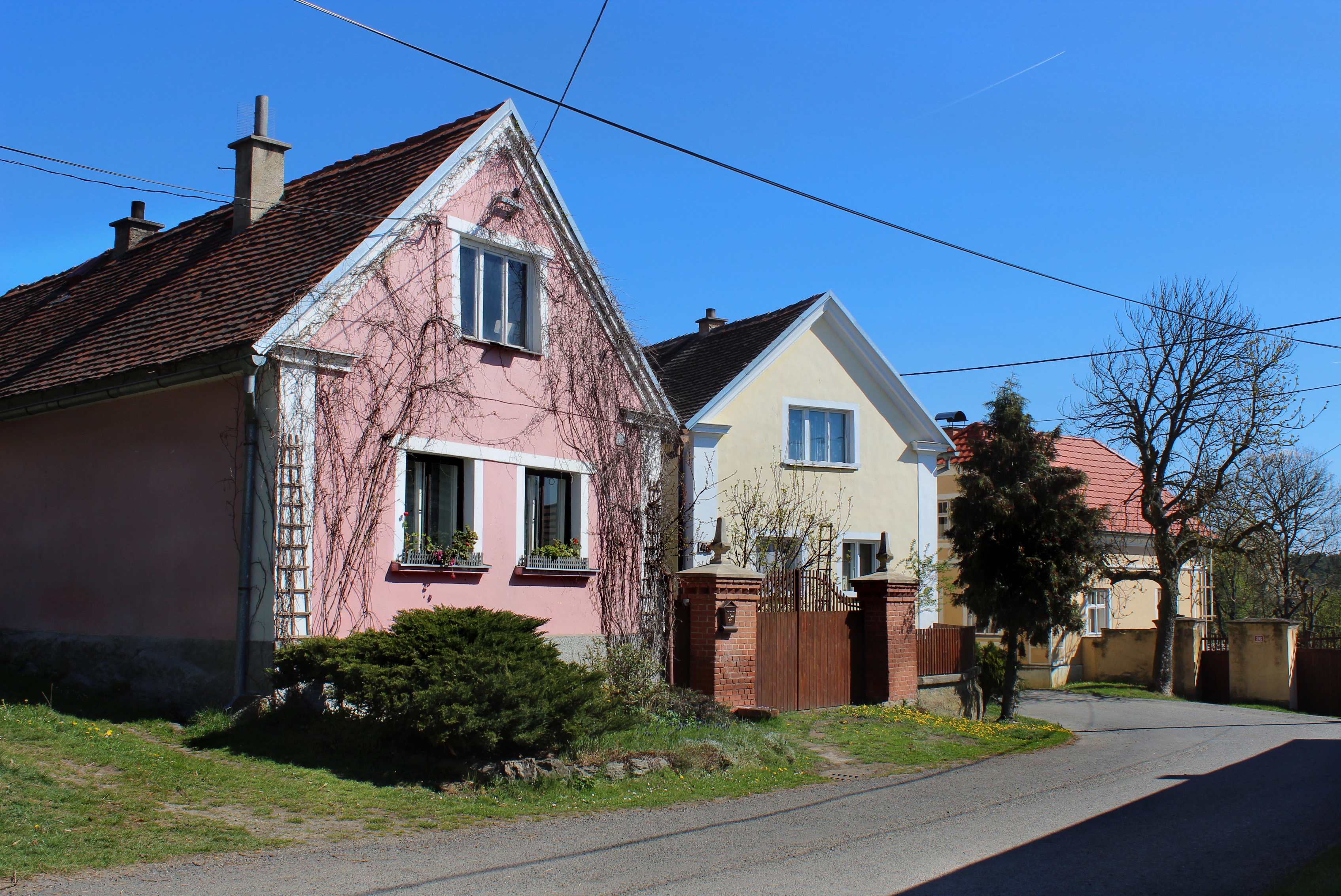 East part of Malovice, part of Erpužice village, Czech Republic